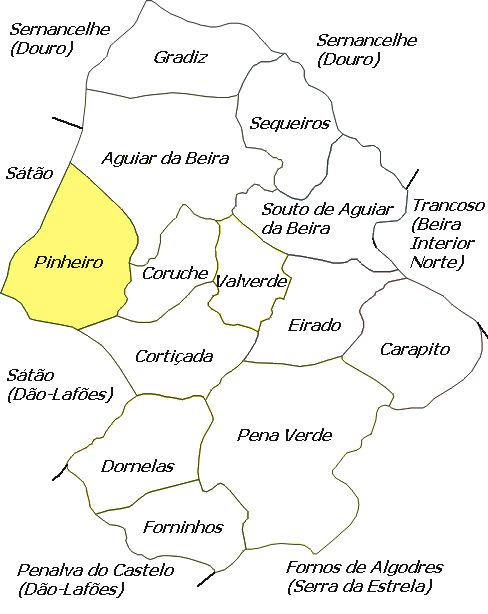 Map of Pinheiro parish in Portugal. Author: Kullanıcı:Mskyrider.